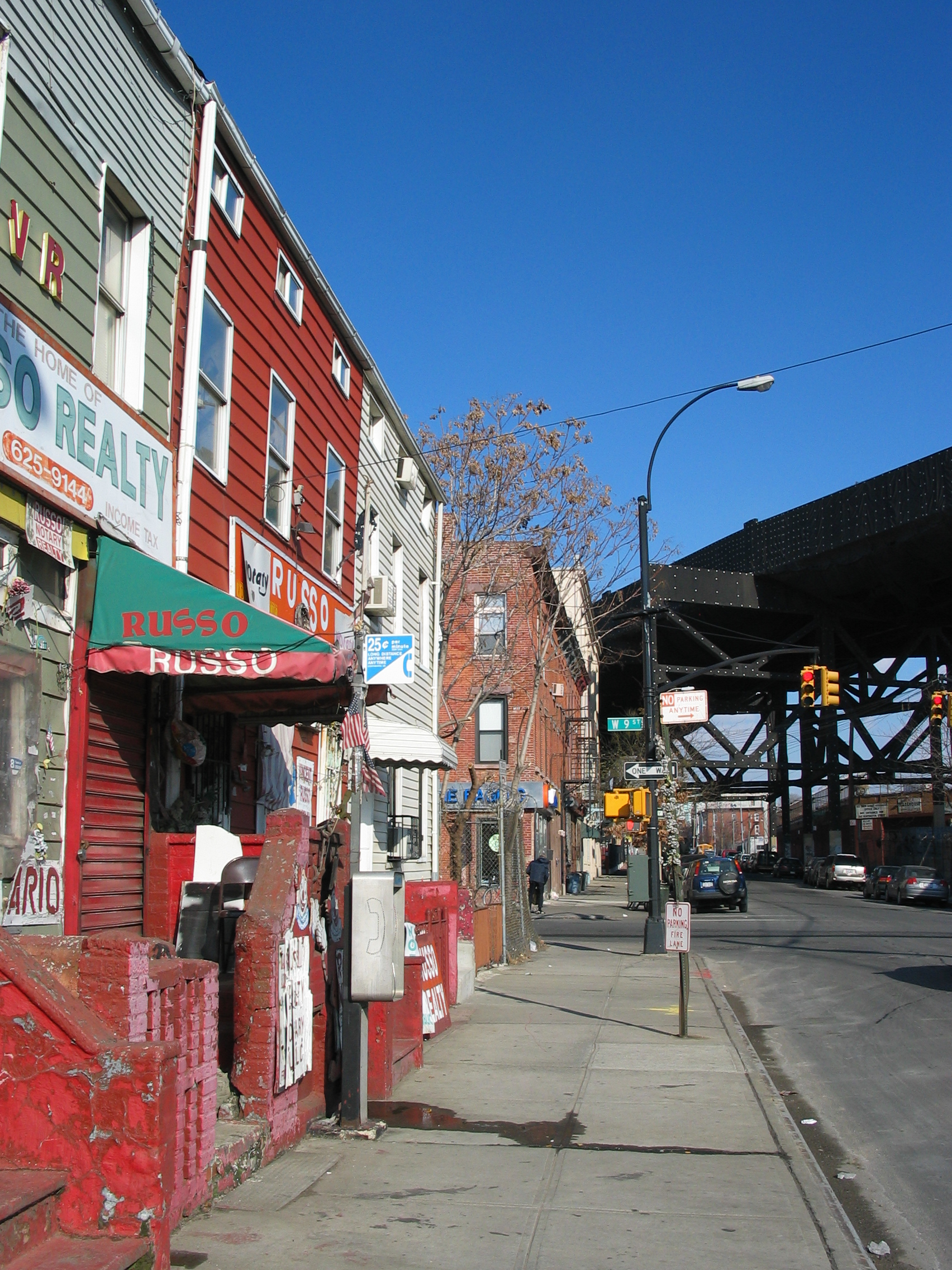 Looking north along Brooklyn's Smith street at 9th street, near the Smith/9th subway station.